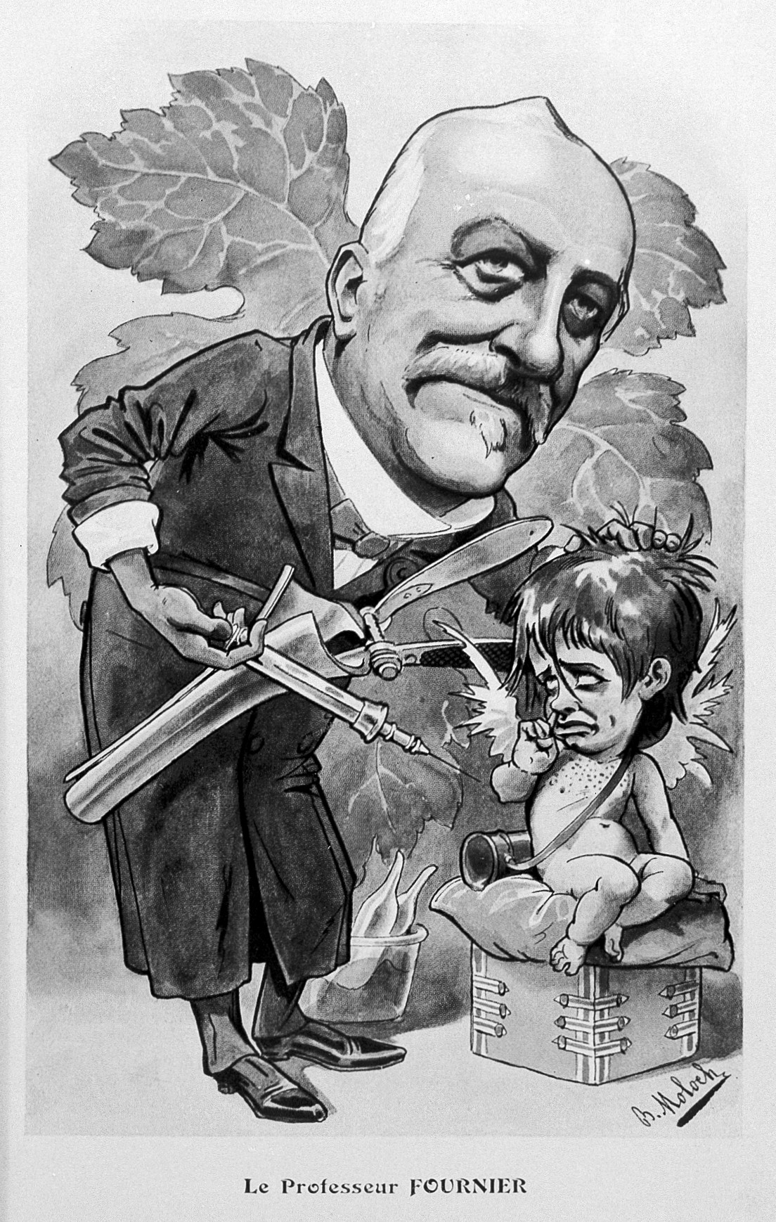 Caricature of Alfred Fournier General Collections Keywords: Jean Alfred Fournier